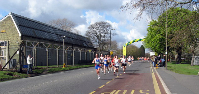 A leading group in 2008 London Marathon Almost identical to the 2007 photo, taken just beyond the 2 mile banner. Not quite the same crowd density here, one of the reasons this photographer chose this spot again.